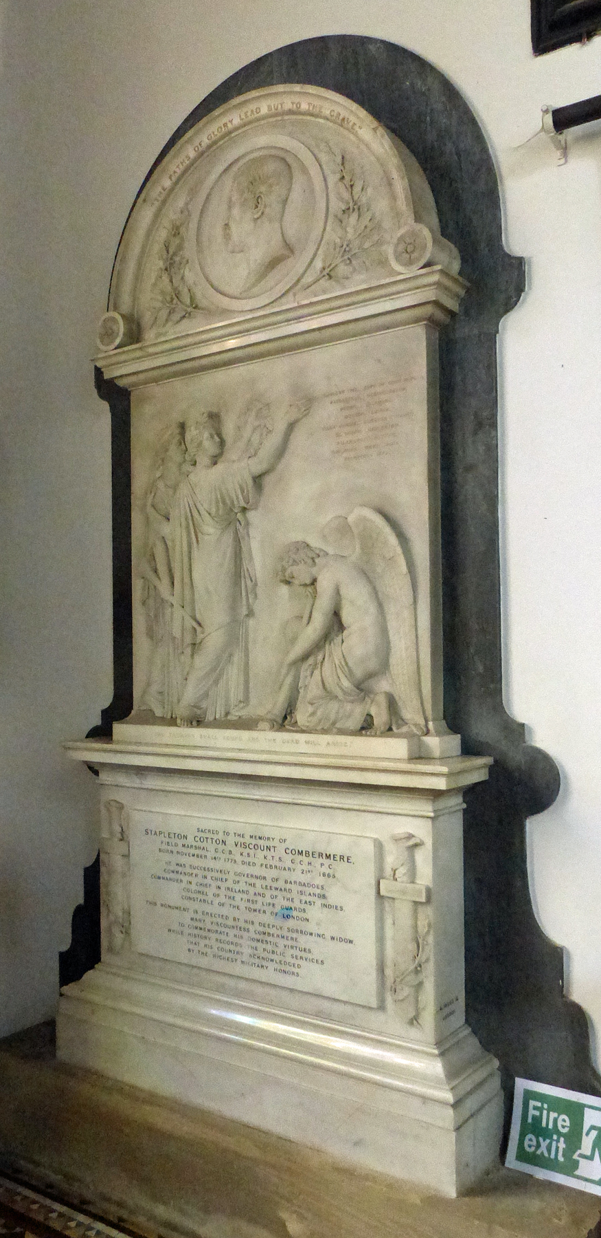 Tomb of English nobleman in Wrenbury parish church, Cheshire, England.